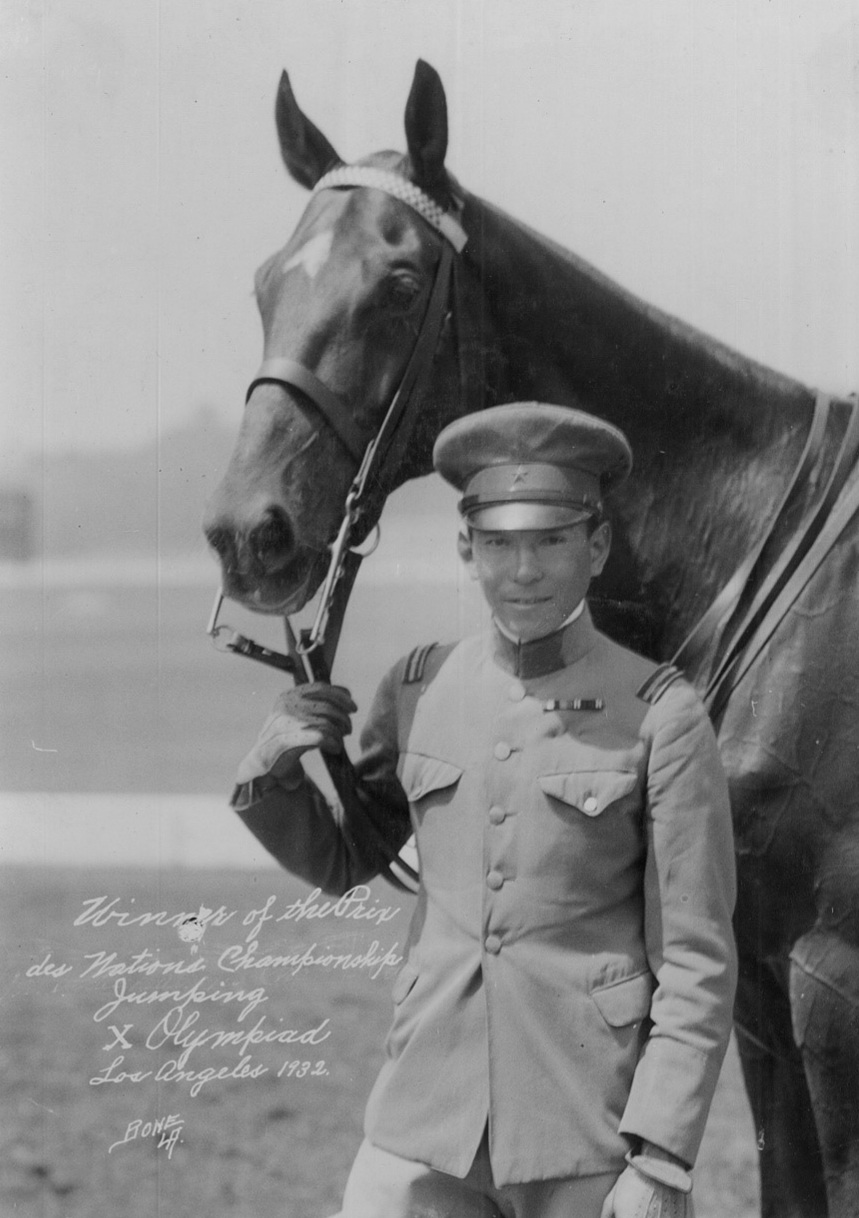 Takeichi Nishi of a Japanese officer.